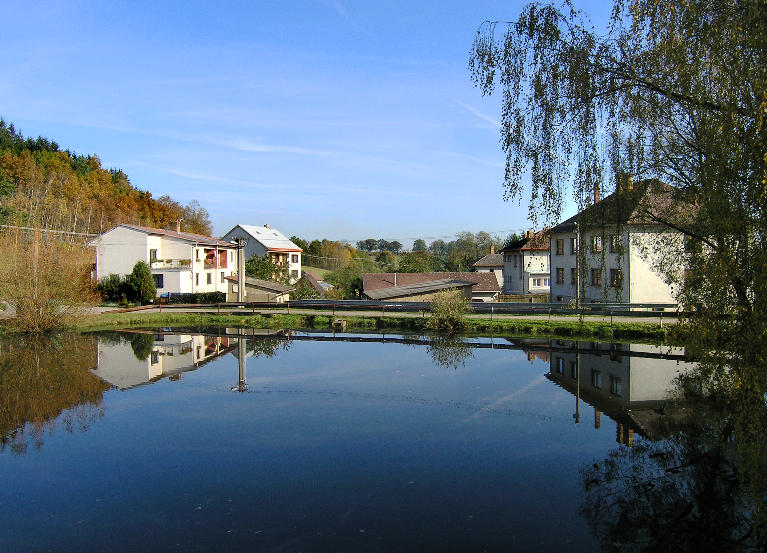 Common pond in Plandry village, Czech Republic